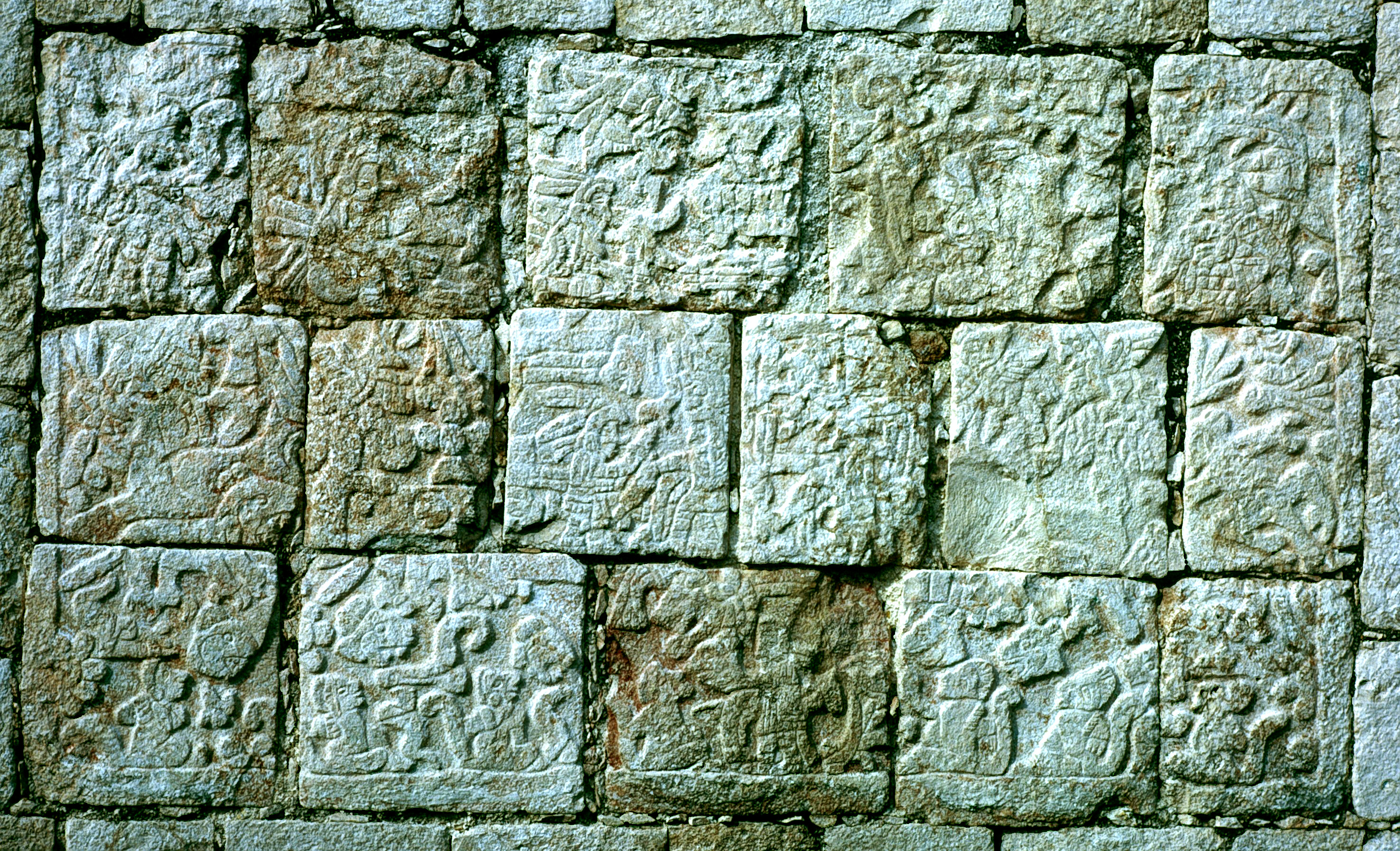 Chichen Itza, Yucatan, Mexico: Templo de los Tableros Esculpidos, northern panel